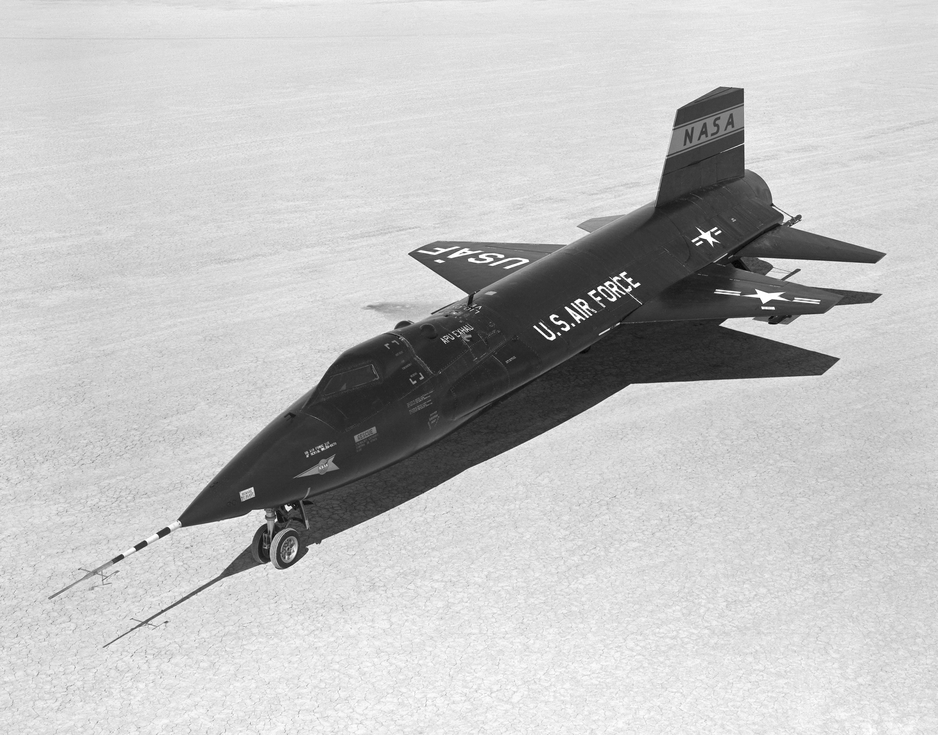 The North American X-15 aircraft, ship #1 (56-6670), sits on the lakebed early in its illustrious career of high speed flight research. X-15-1, serial number 56-6670, is now located at the National Air and Space museum, Washington DC.